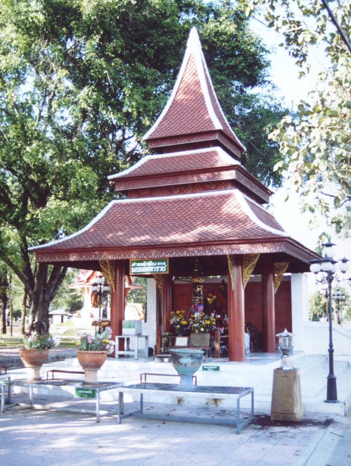 City pillar shrine (Lak Mueang) of Mae Sai, Chiang Rai Province, Thailand. Photo taken on February 2 2006 by User:Ahoerstemeier.